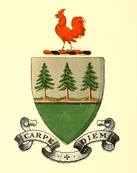 The arms of the Hoffman political family of New York